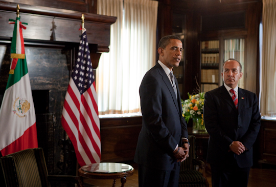 United States President Barack Obama meets Mexico President Felipe Calderón.